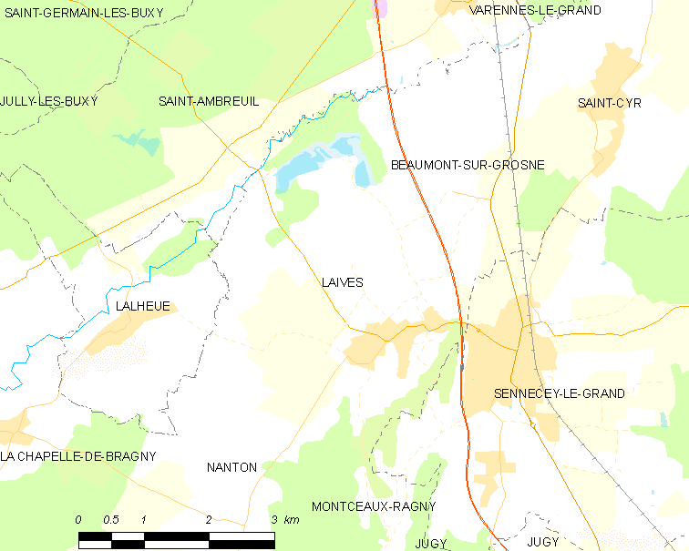 Map of French municipality